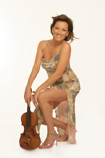 Katica Illényi, violinist, theremin player, the Rose of the Breeze